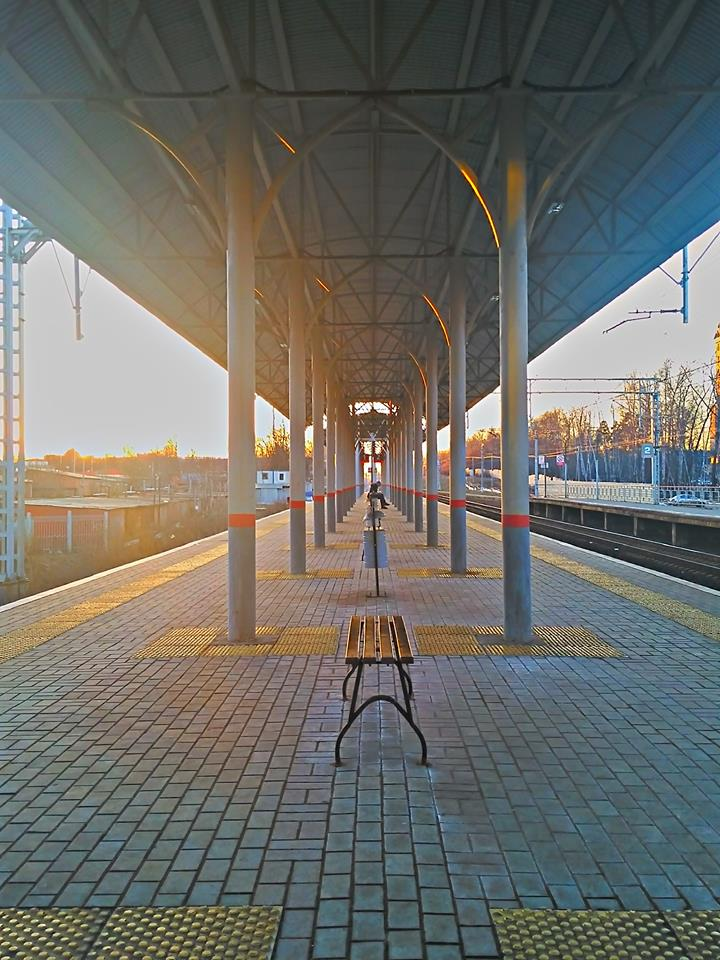 Kuchino railway station, central platform The license is provided in the comments to the original Facebook post